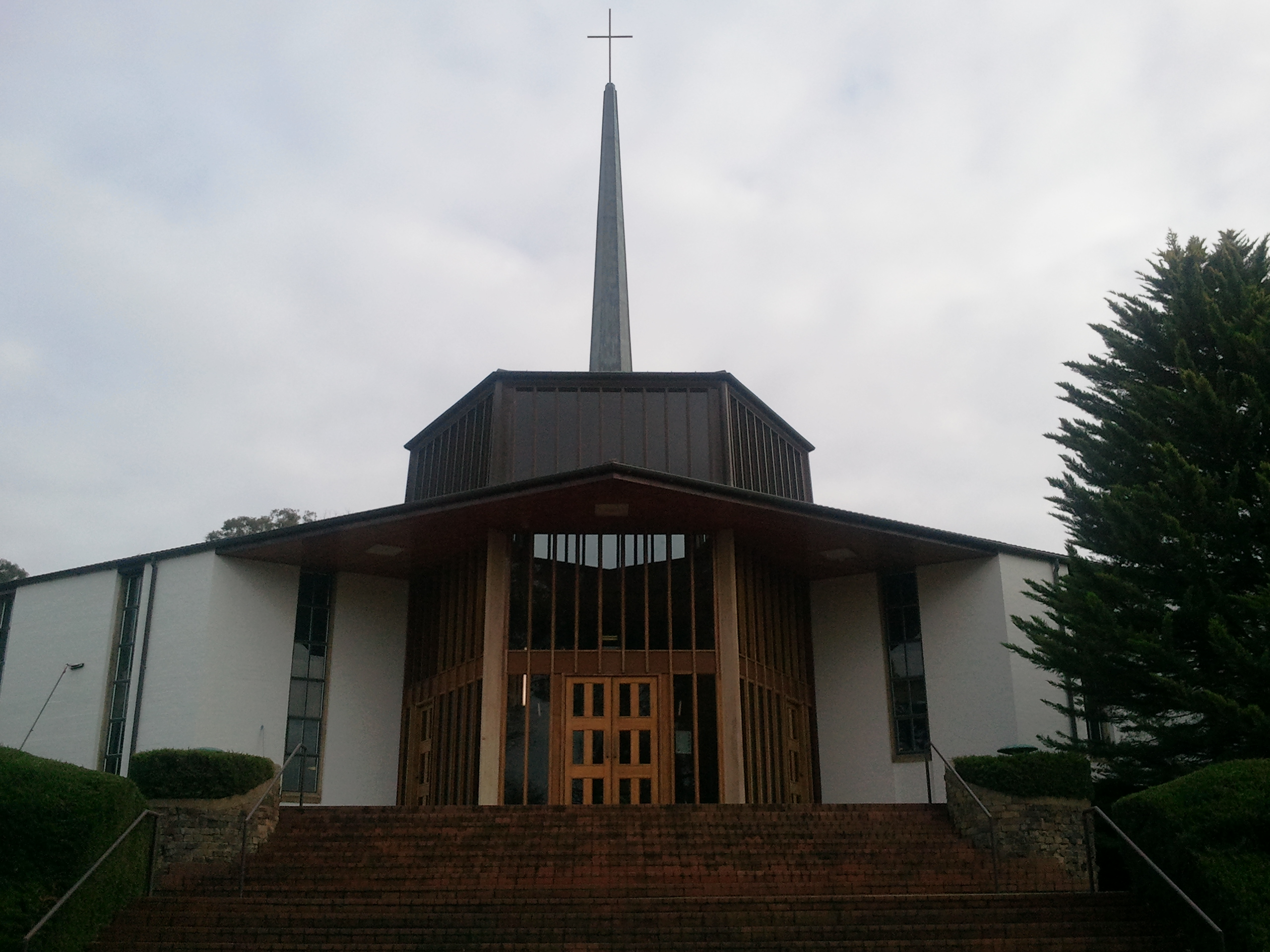 Royal Military College, Duntroon - Chapel